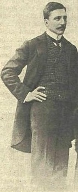 Hungarian diplomat József Somssich with his wife